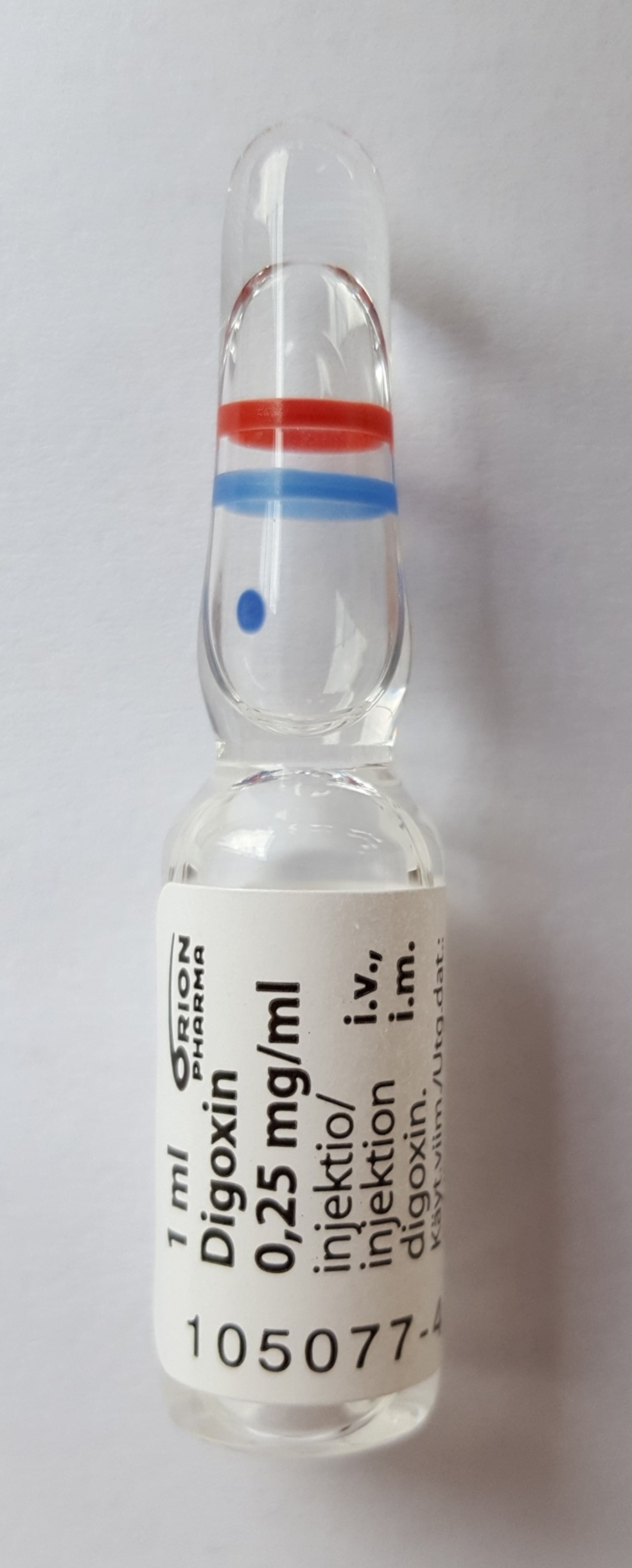 Digoxin 0,25mg/1ml vials